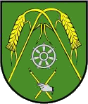 Coat of arms of Wagenhausen